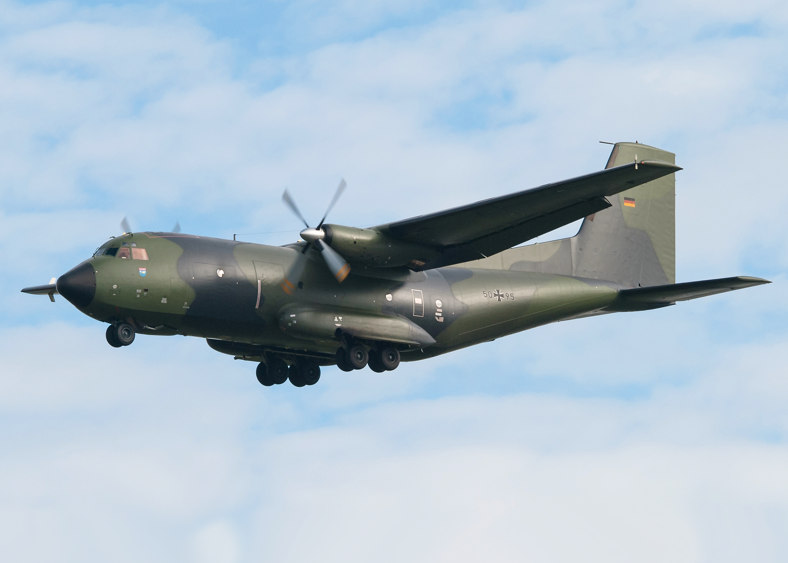 German Air Force transport airplane C-160 Transall No. 50+95 at Neubrandenburg Airport